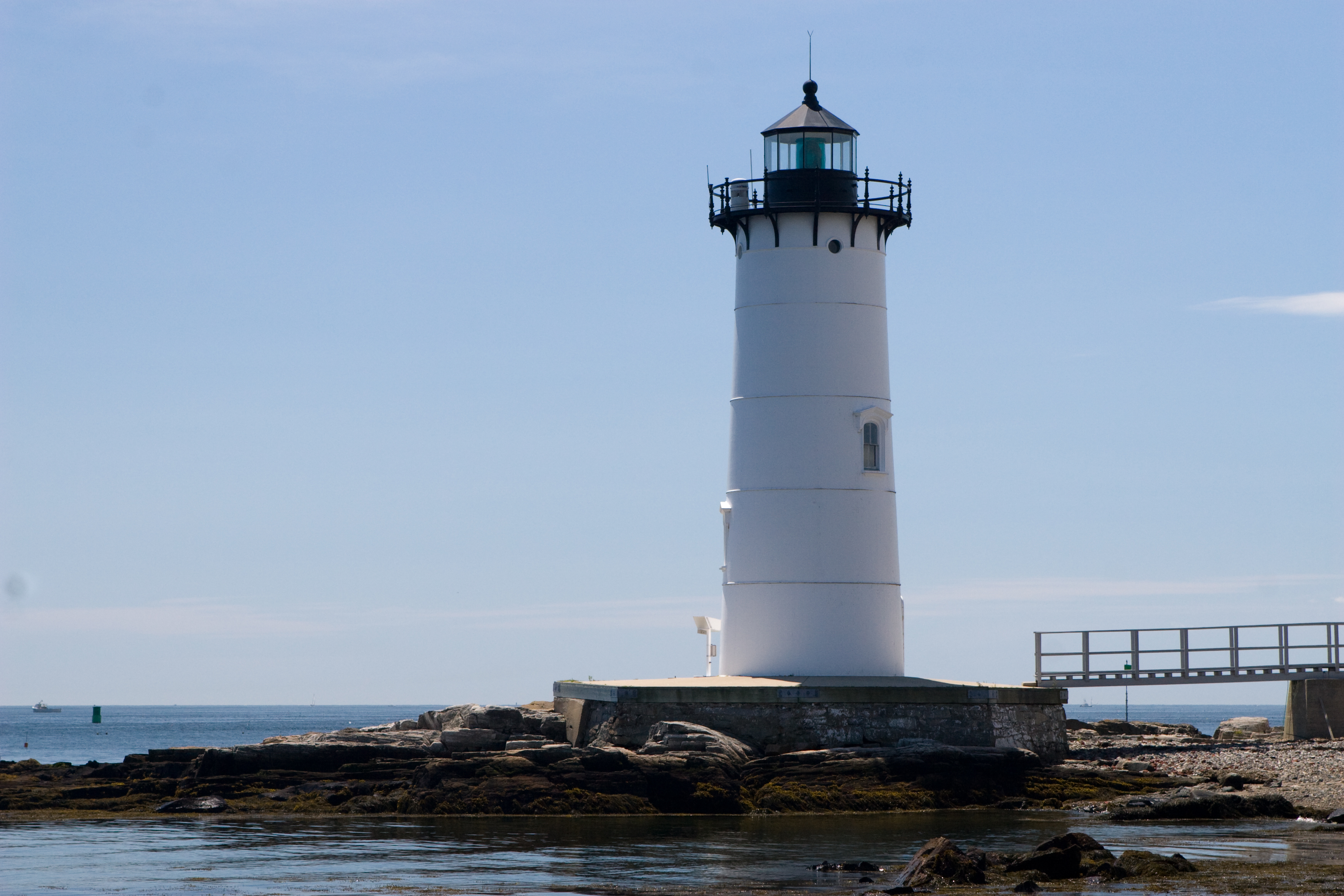 Portsmouth Harbor Light, which is contained in Fort Constitution, Portsmouth, NH, USA